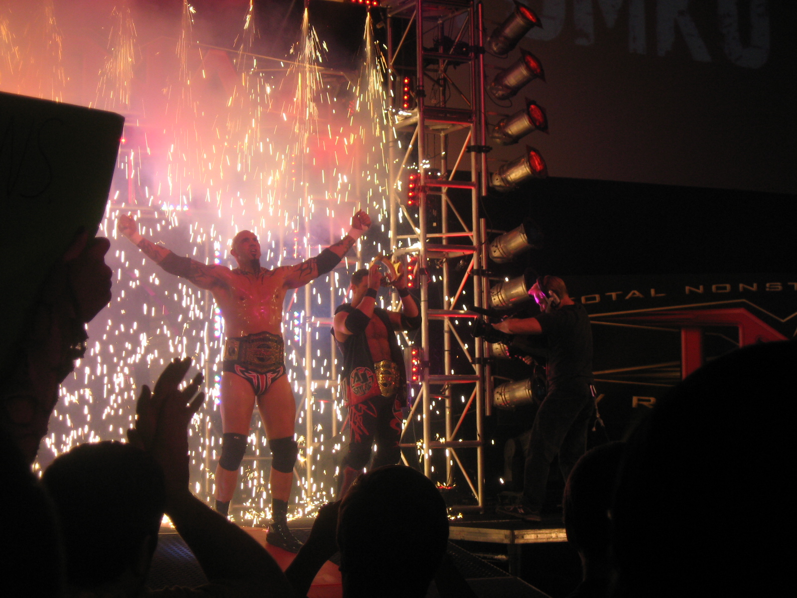 Travis Tomko and AJ Styles